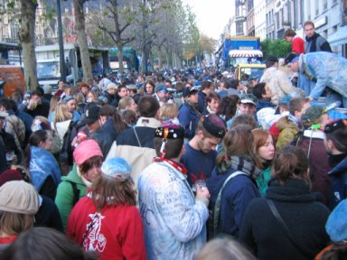 St V festivities, 2004